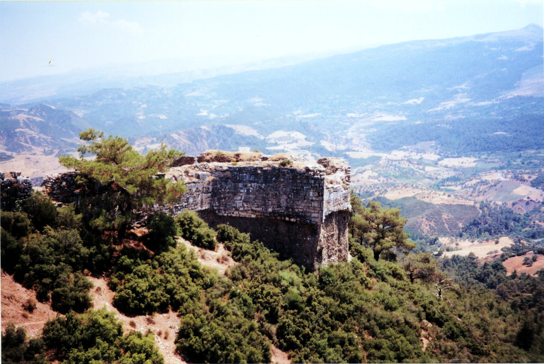 Sardis citadel at Salihli, Manisa, Turkey.